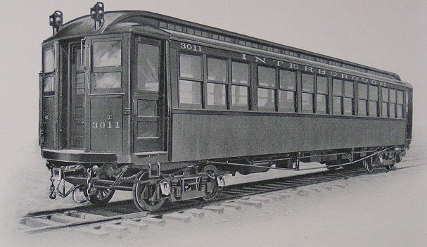 Drawing of a composite car.These cars had a wooden body mounted on top of a steel underframe to increase stability and crash safety. They also had copper plates put along their sides.